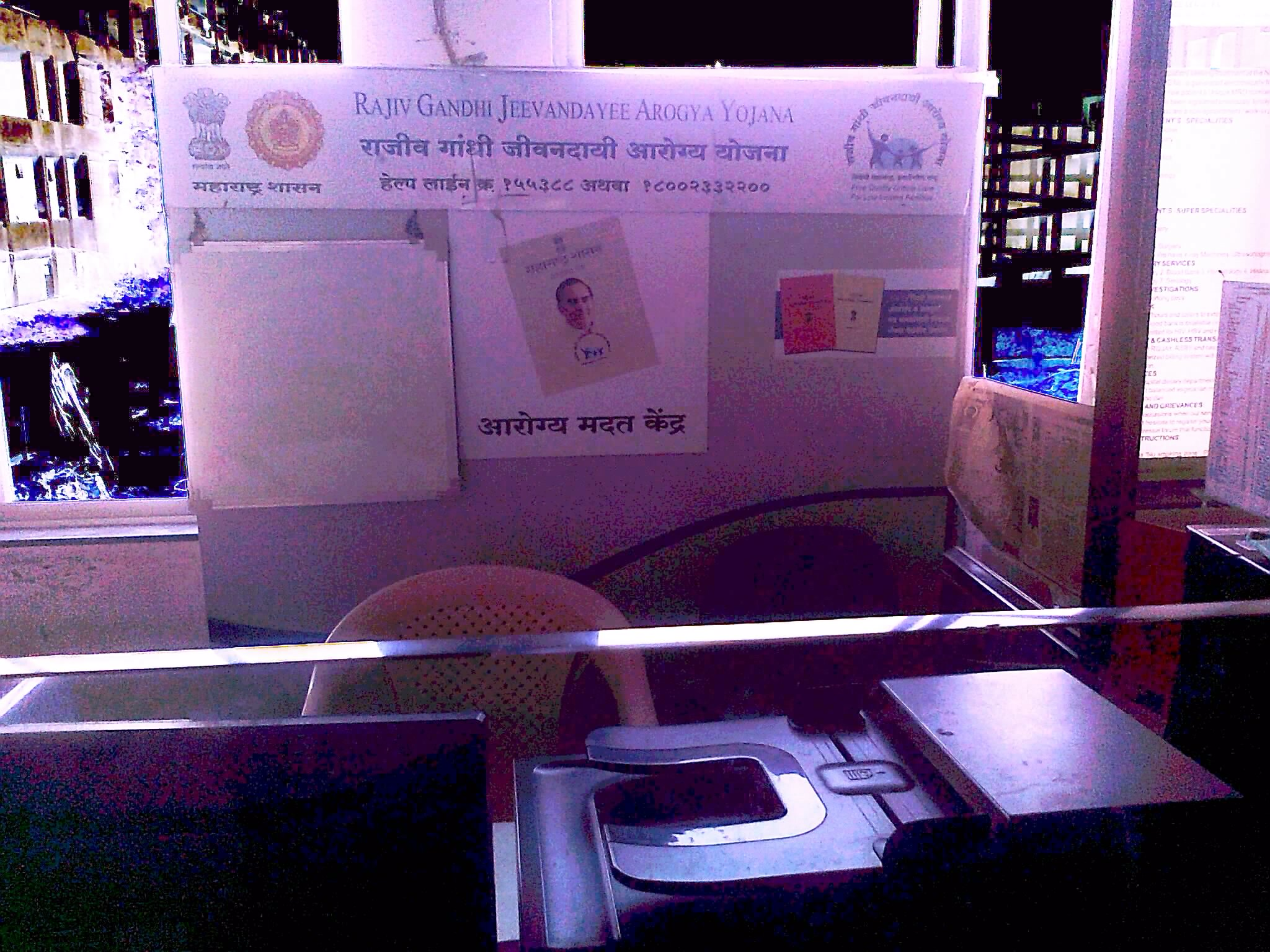 Rajiv Gandhi Jeevandayee Arogya Yojana (RGJAY), Aarogyamitra help center in Dr Ulhas Patil Medical College And Hospital at Jalgaon, India